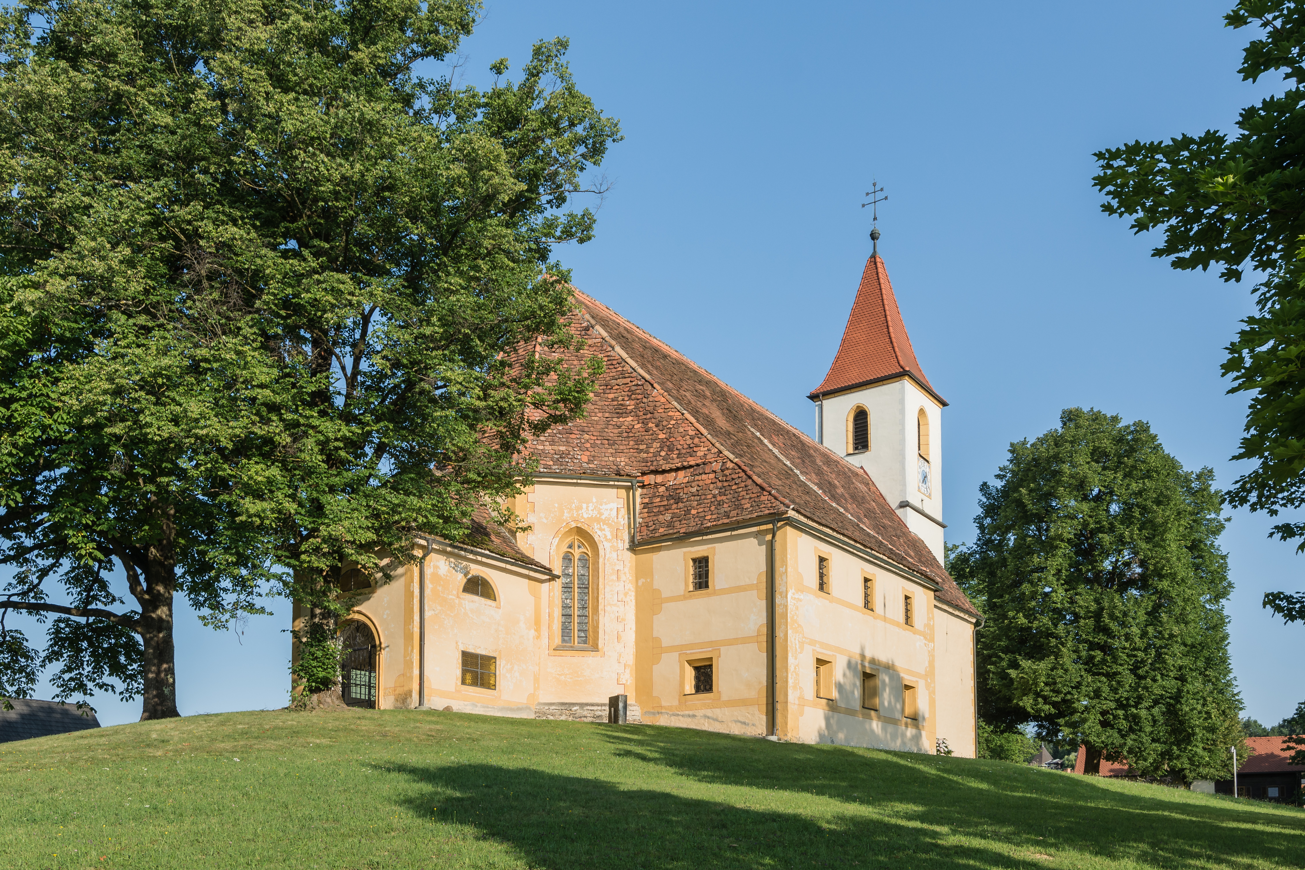 The presbytery of subsidiary church of Saint Sebastian in Söding-St. Johann was built in 1508. A nave with flat ceiling was erected in 1562. In 1676 the vault above the nave, the registry and the chapel of the cross were attached.